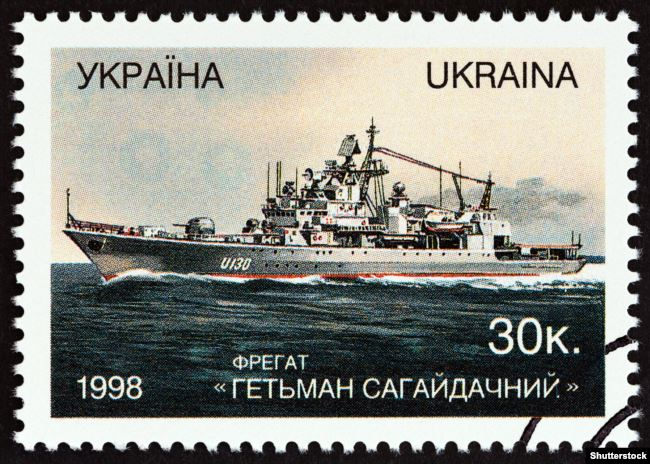 Stamp of Ukraine